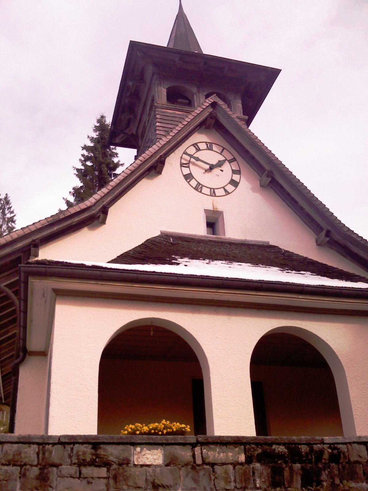 Sangernboden Church, Municipalitiy of Guggisberg, Canton of Berne, Switzerland